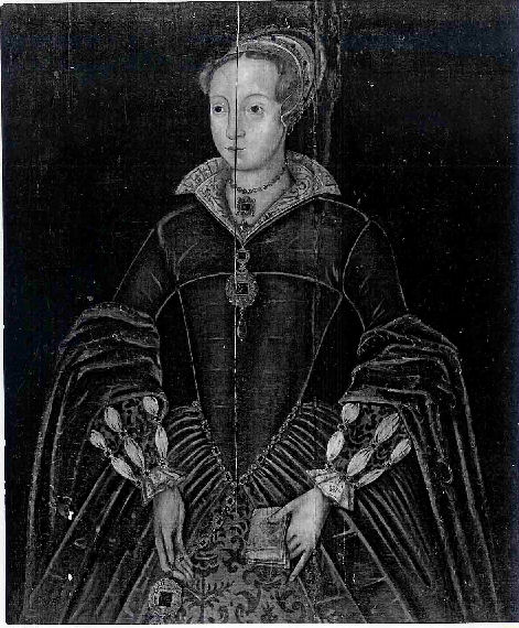 The so-called Houghton portrait, alleged to be of Lady Jane Grey. Similar to the 1590s Streatham portrait from the NPG, and likely based on the same (lost) original. The existence of three known copies of the same original suggest that the sitter was high-profile and popular (adding weight to the Jane Grey hypothesis).